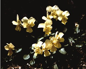 According to IUCN/SSC specialists this is one of the most endangered species of island floras in the Mediterranean area.